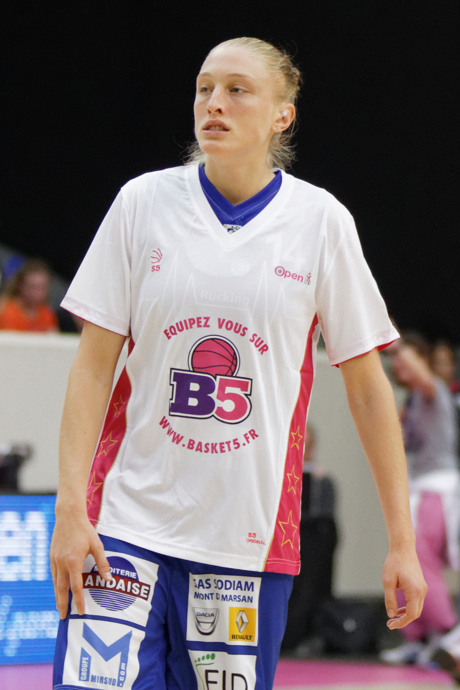 Open LFB, Villeneuve d'Ascq-Basket Landes, October 5th, 2013.